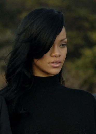 YOKOSUKA, Japan (April 2, 2012) Brooklyn Decker, Alexander Skarsgard, Taylor Kitsch, Tadanobu Asano, Robyn ÒRihannaÓ Fenty and Peter Berg, the cast and director of the movie ÒBattleshipÓ, pose for photos taken by international journalists on the flight deck of the Nimitz-class aircraft carrier USS George Washington (CVN 73) during a news conference. George Washington hosted a news conference between 150 international journalists and the director and cast of the movie ÒBattleshipÓ on the flight deck of the NavyÕs only full-time forward deployed aircraft carrier. (U.S. Navy photo by Mass Communication Specialist 2nd Class Alexander W. Cabrall/Released)